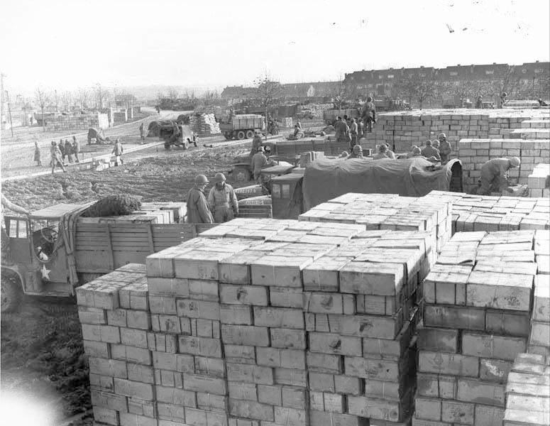 Depot of the US 9th Army in Oranjeplein, Maastricht, Netherlands in 1944, two months after the liberation of Maastricht by the US Army 30th Division ("Old Hickory") from the German occupation. Photo collection of RHCL, Maastricht, ref. nr. GAM 6939.